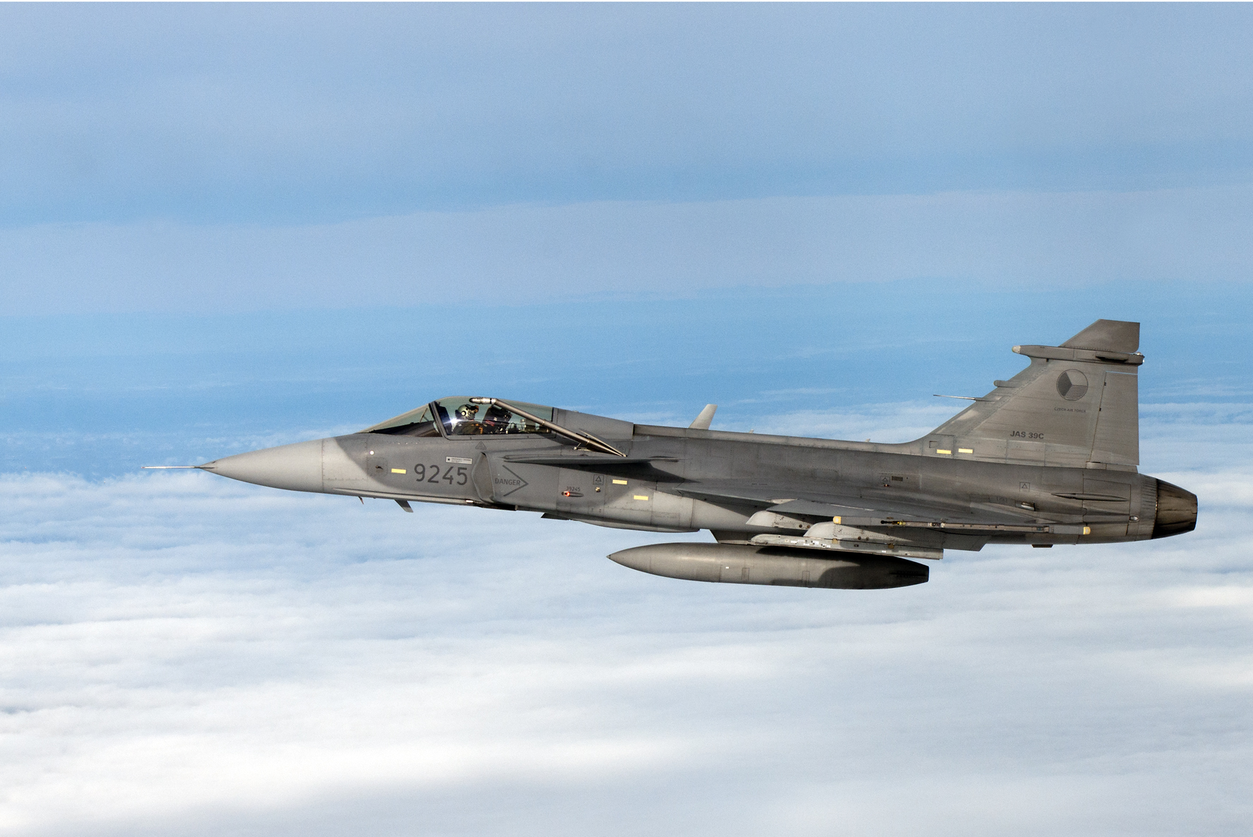 Saab JAS-39 Gripen of the Czech Air Force